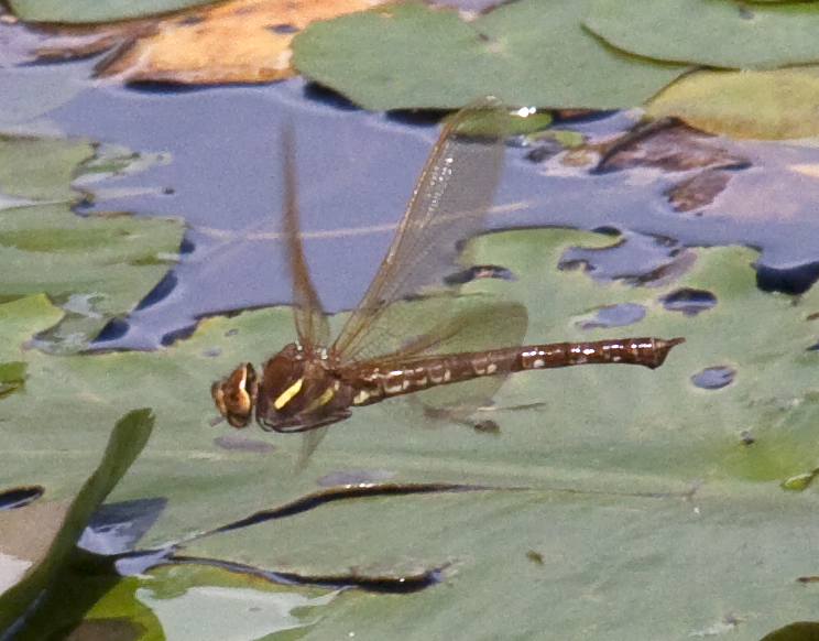 I spotted this Brown Hawker flying about 10 metres away flying across the lake. I took a few shots before it flew off, unfortunately at that distance the quality wasn't great. Aeshna grandis female.